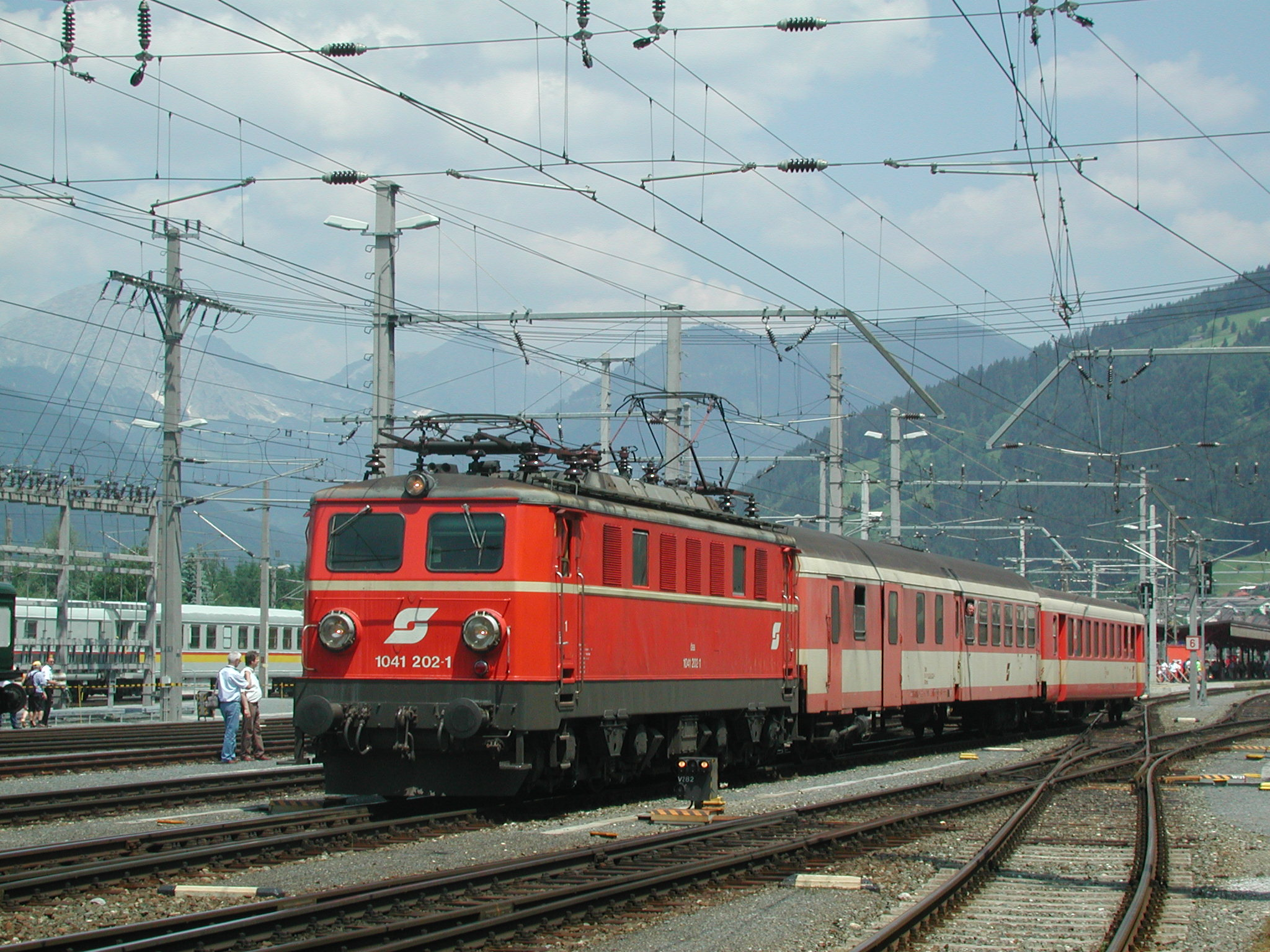 ÖBB 1041 202-1 leaving Selzthal station with a short passenger train.